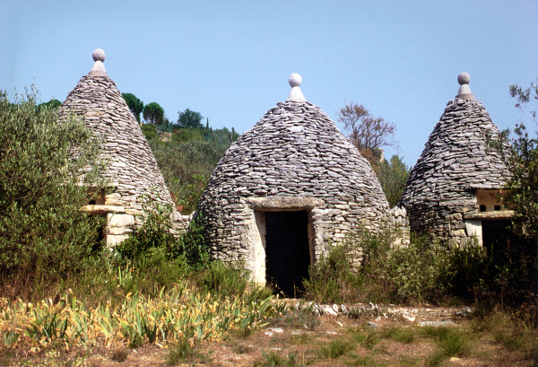 Group of three dry stone built edifices (two pigeon houses, one hut), called "The Three Soldiers", at Gordes, Vaucluse, France (circa 1870).